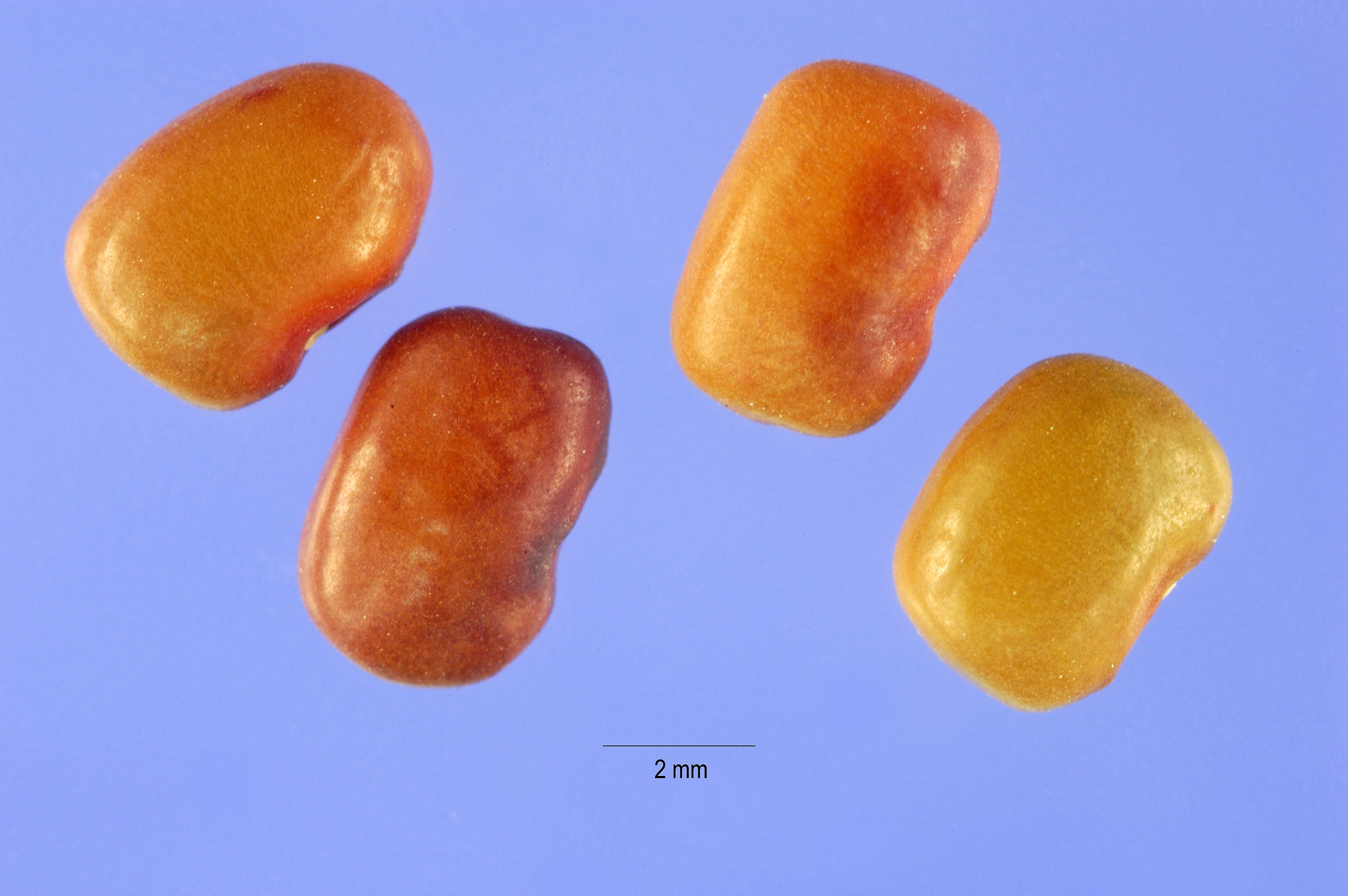 Oahu riverhemp